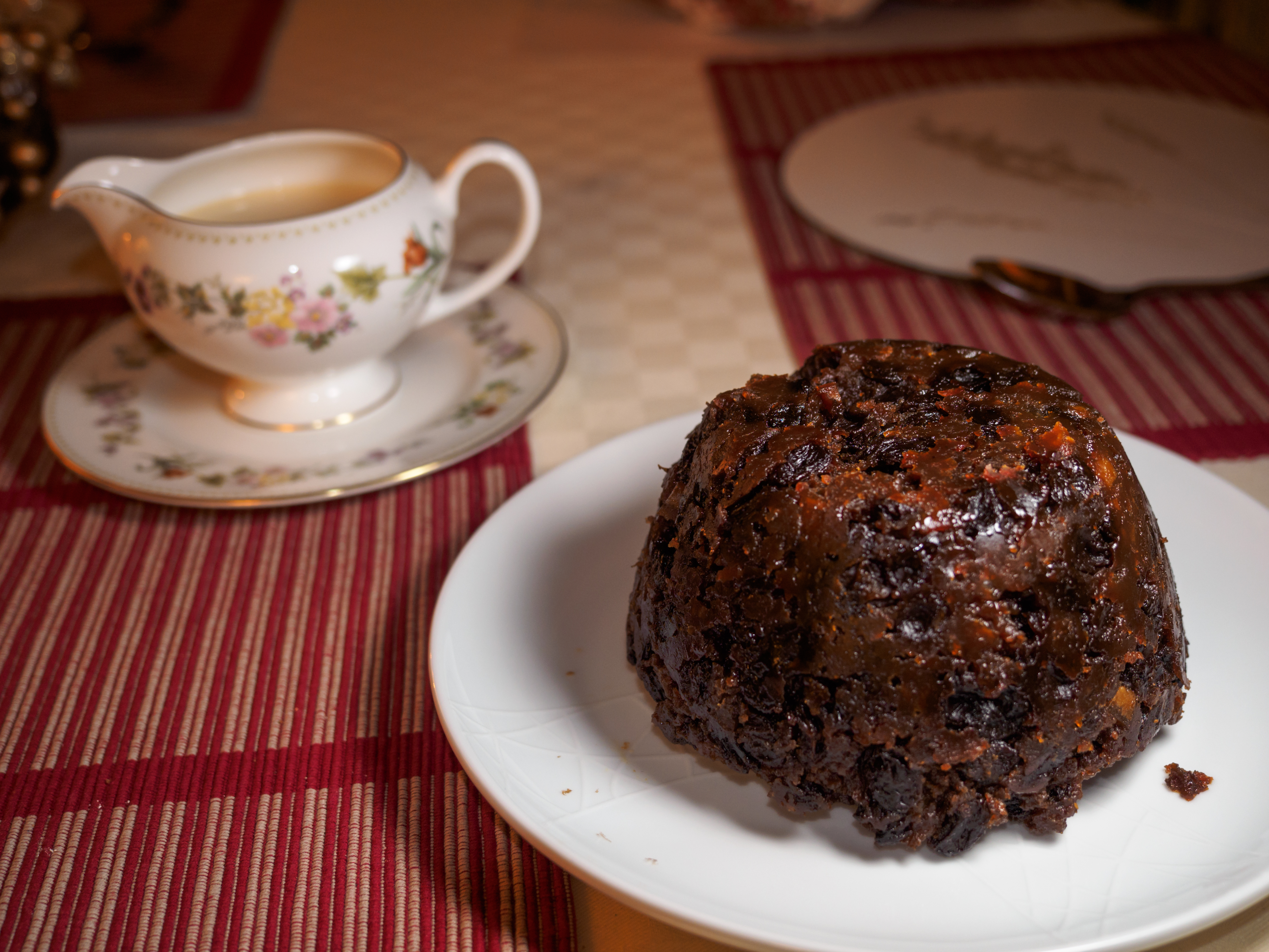 Made by photographer's grandmother.